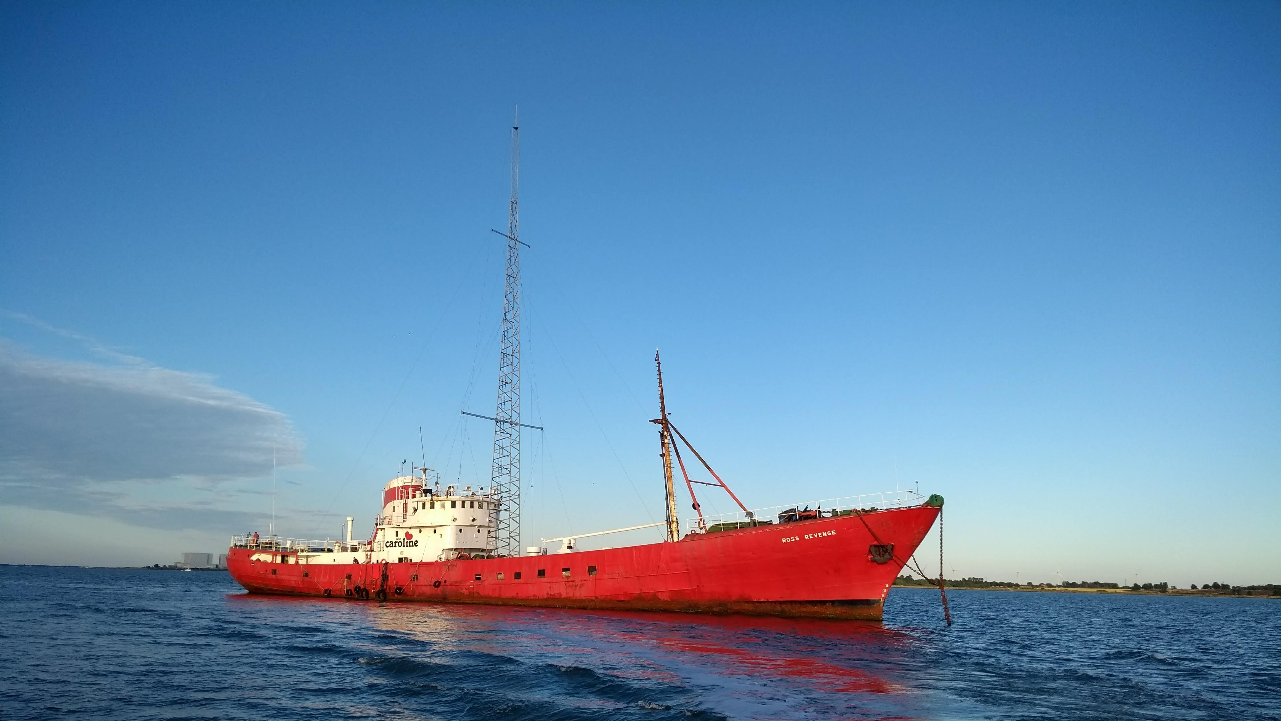 MV Ross Revenge - Radio Caroline ship